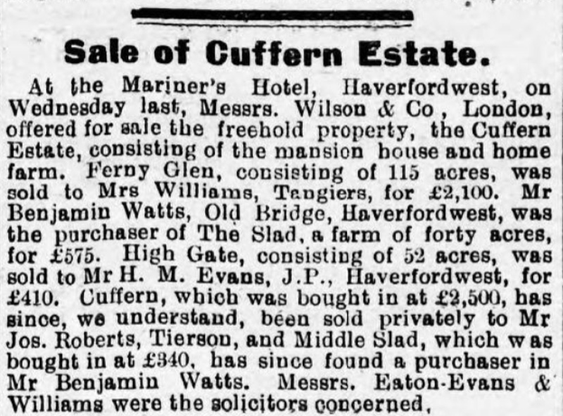 Sale information about Cuffern Manor, Pembrokeshire in 1918